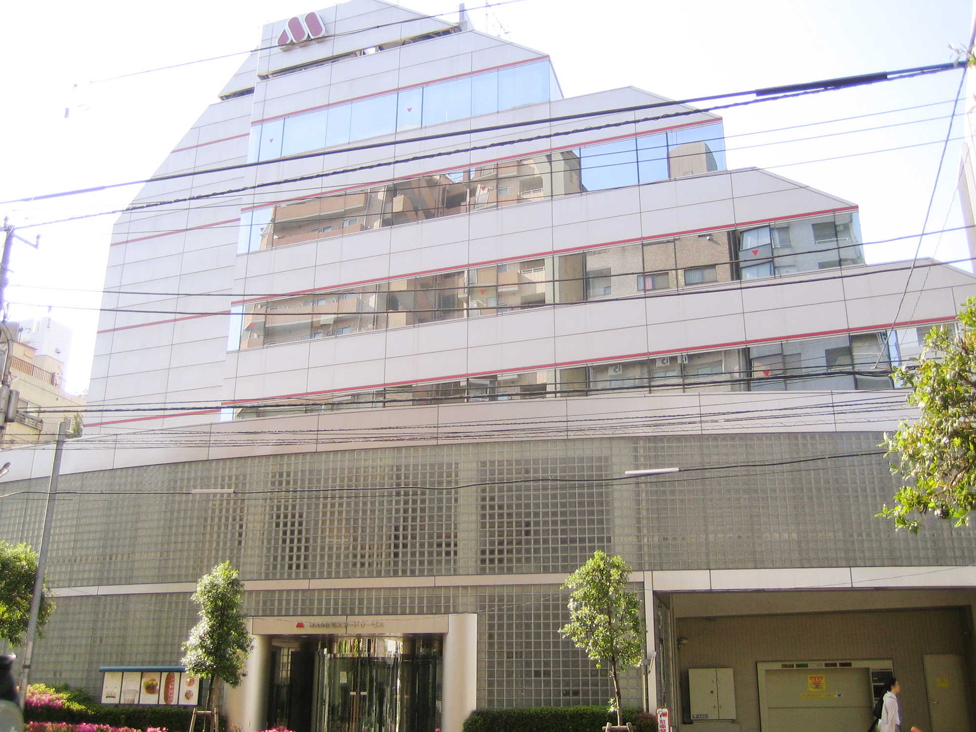 Mos Food Services Inc. (株式会社モスフードサービス), in Shinjuku, Tokyo, Japan